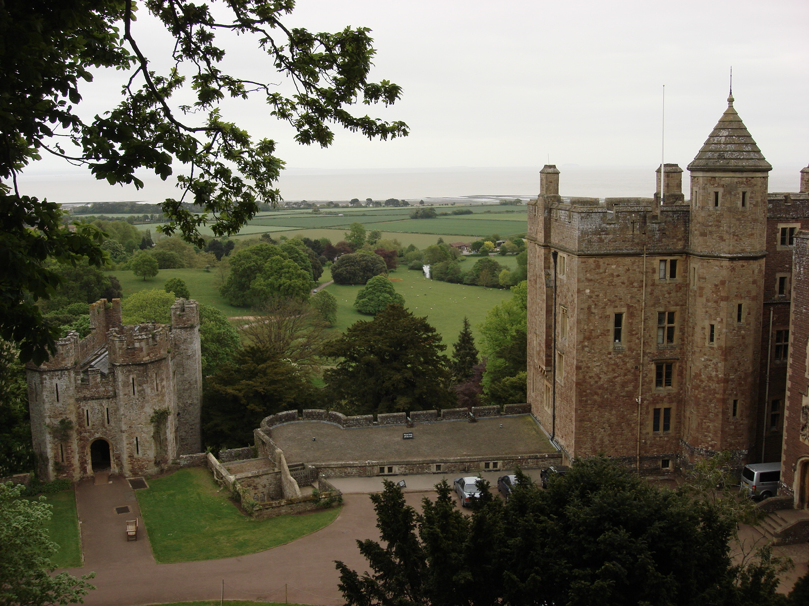 Dunster Castle and gatehouse